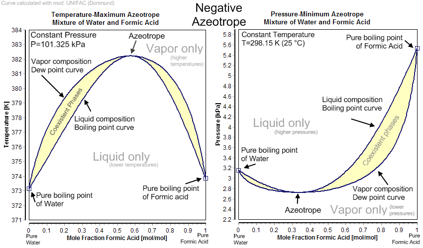 Negative azeotrope of Formic acid and Water with descriptions. Calculated by modified UNIFAC (Dortmund).